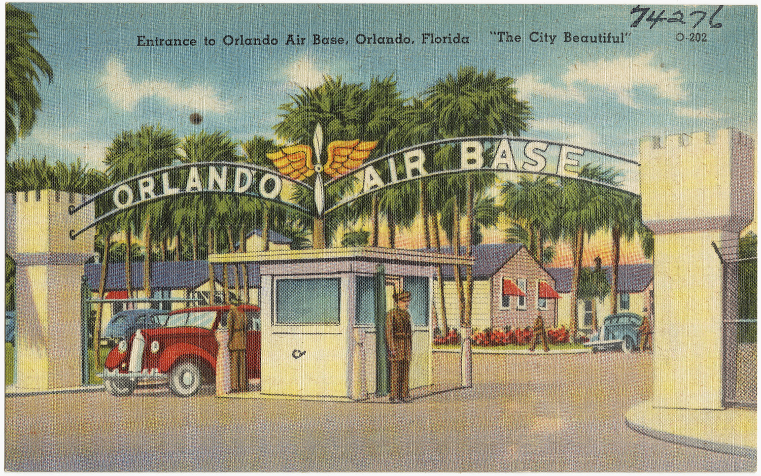 File name: 06_10_008447 Title: Entrance to Orlando Air Base, Orlando, Florida, 'the city beautiful' Date issued: 1930 - 1945 (approximate) Physical description: 1 print (postcard) : linen texture, color ; 3 1/2 x 5 1/2 in. Genre: Postcards Subject: Military facilities Notes: Title from item. Collection: The Tichnor Brothers Collection Location: Boston Public Library, Print Department Rights: No known restrictions